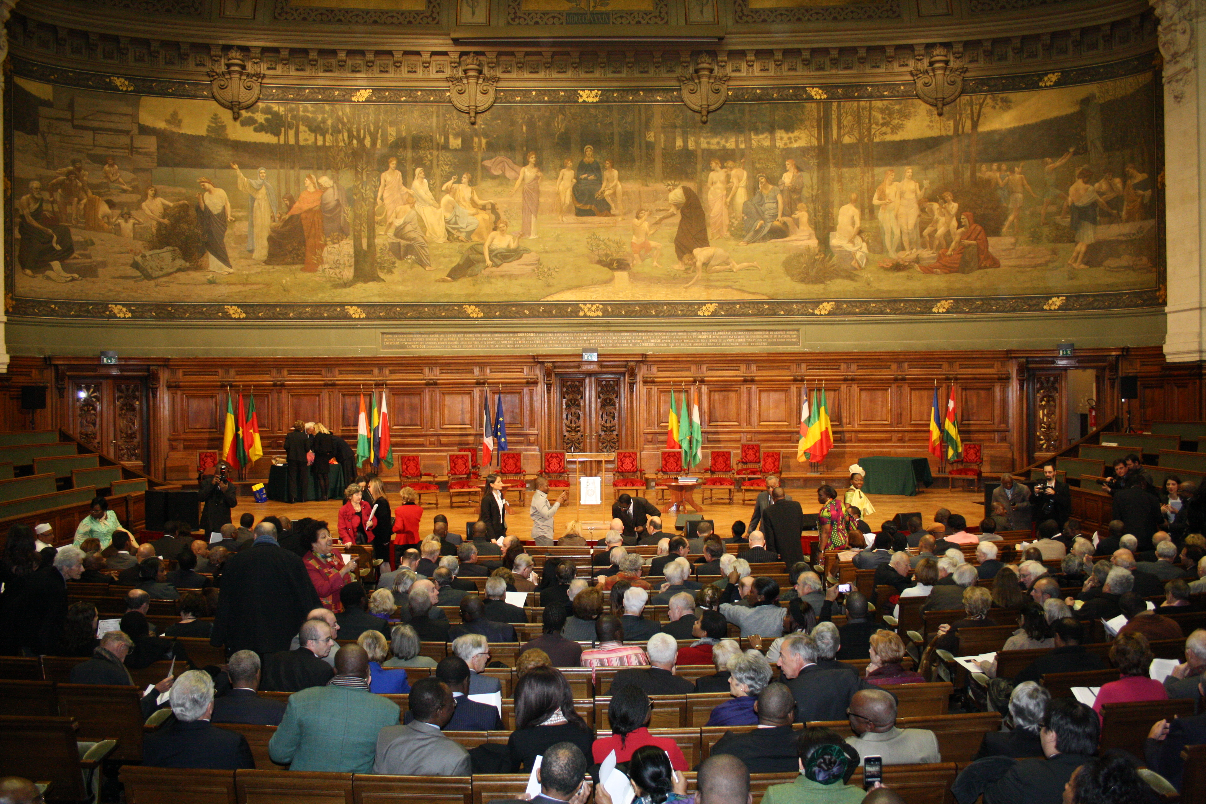 Great amphitheatre of La Sorbonne school in Paris, France.